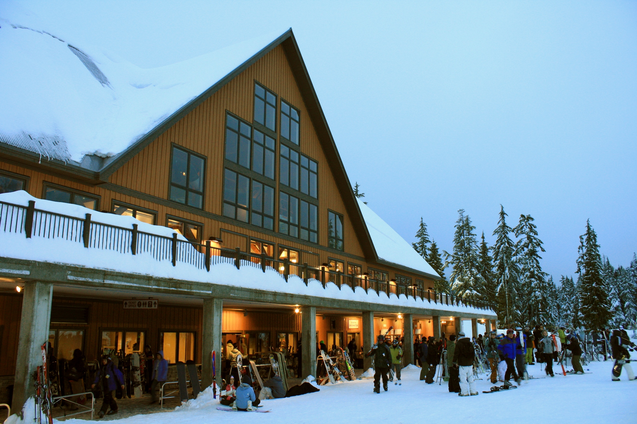 Reception house in Cypress Mountain.